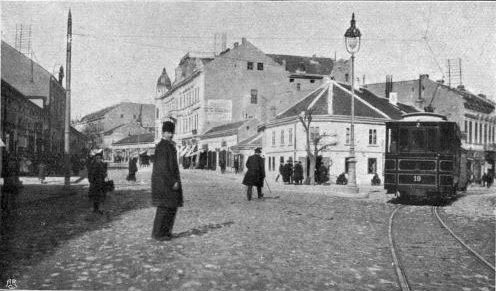 Original description: "The Knes Mihajelowa: Belgrade"